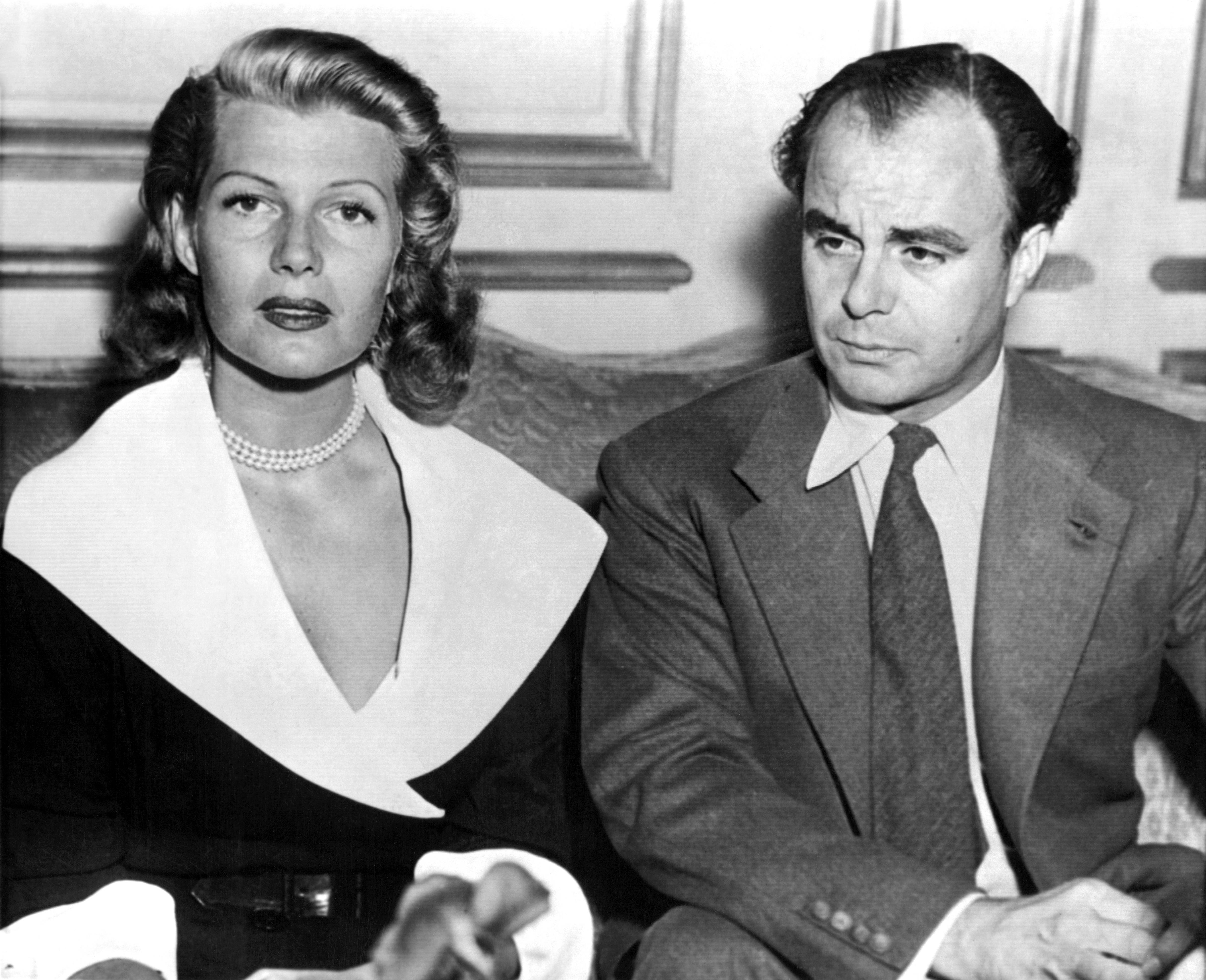 Photograph of Rita Hayworth and Aly Khan in Paris Caption reads as follows: ALY KHAN WITH EX-WIFE--Prince Aly Khan, killed in an automobile accident tonight in a Paris suburb, is shown with his former wife, actress Rita Hayworth, in 1952 in his Paris mansion before their divorce. They had one child, Princess Yasmin.